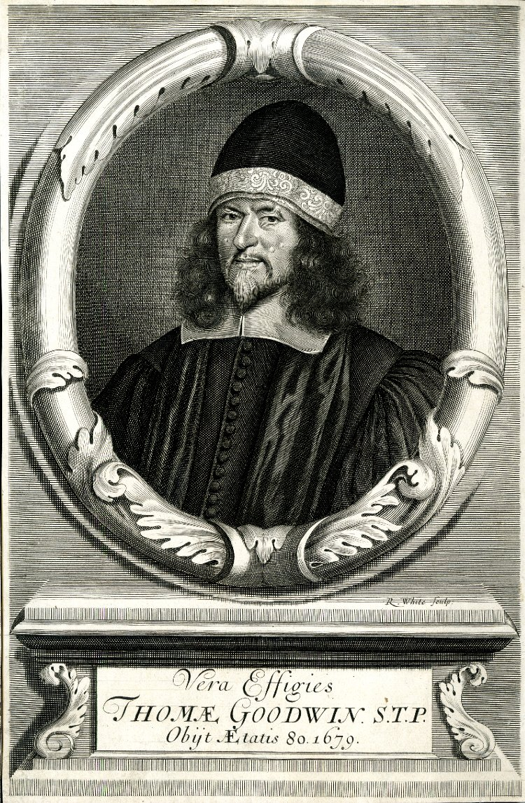 Portrait of Thomas Goodwin